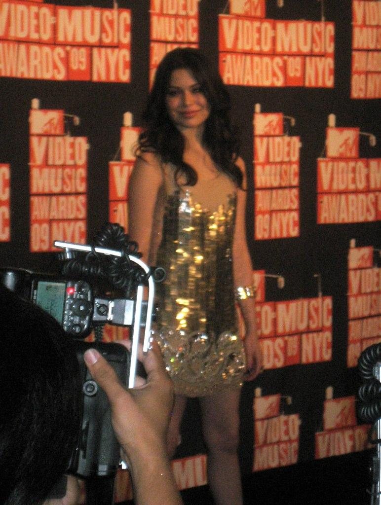 Miranda Cosgrove at the 2009 MTV Video Music Awards.